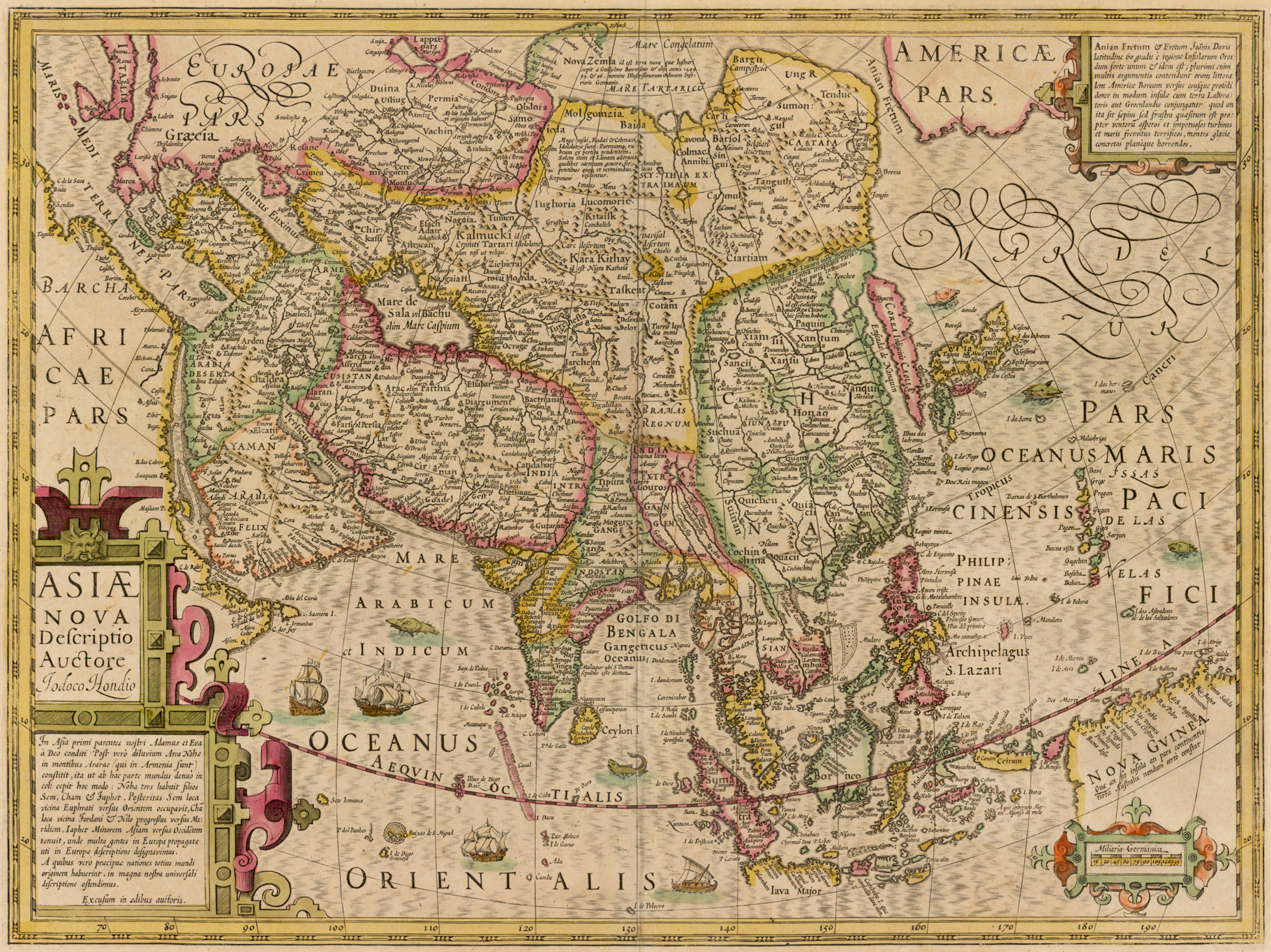 "A new description of Asia". Note the presence of two Khanbaliqs (Combalich in the land of "Kitaisk" on the Ob River, and Cambalu, in "Cataia") and one Beijing (Paquin, in Xuntien (Shuntian))